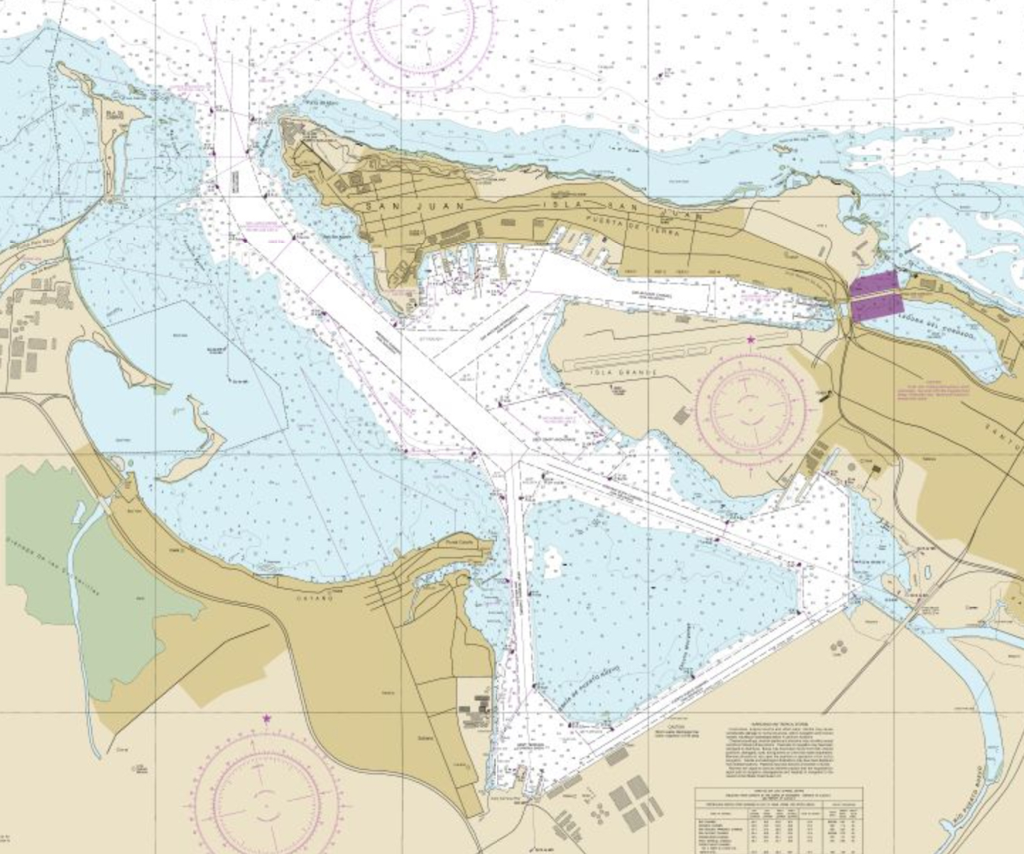 This is a screen shot of a map available for public usage at the US agency, National Oceanic and Atmospheric Administration, United States government. The shot was taken on December 11, 2015, for use in Wikipedia.